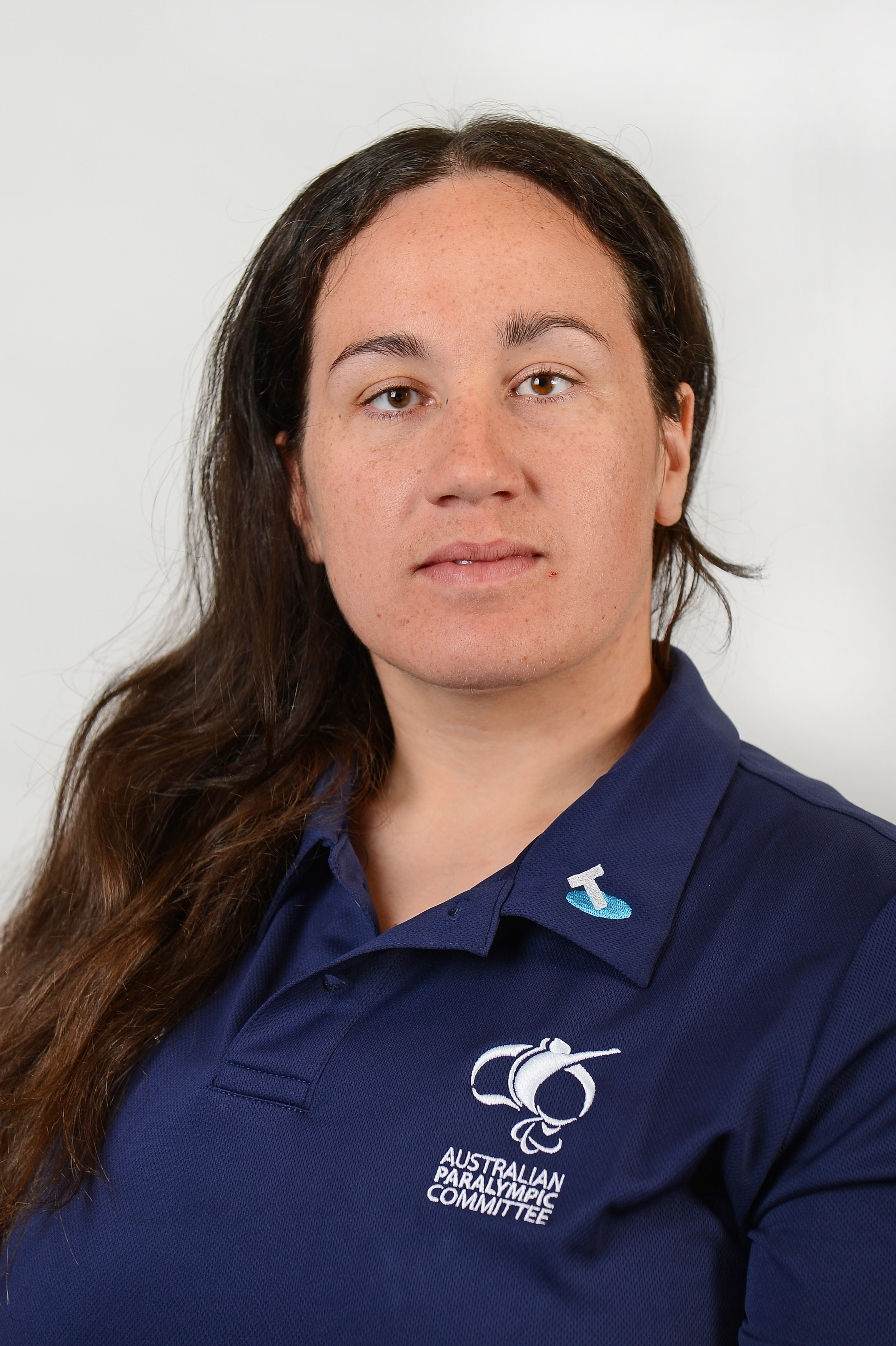 Portrait of Australian Skier Melissa Perrine, 2014 Australian Paralympic Team Athlete